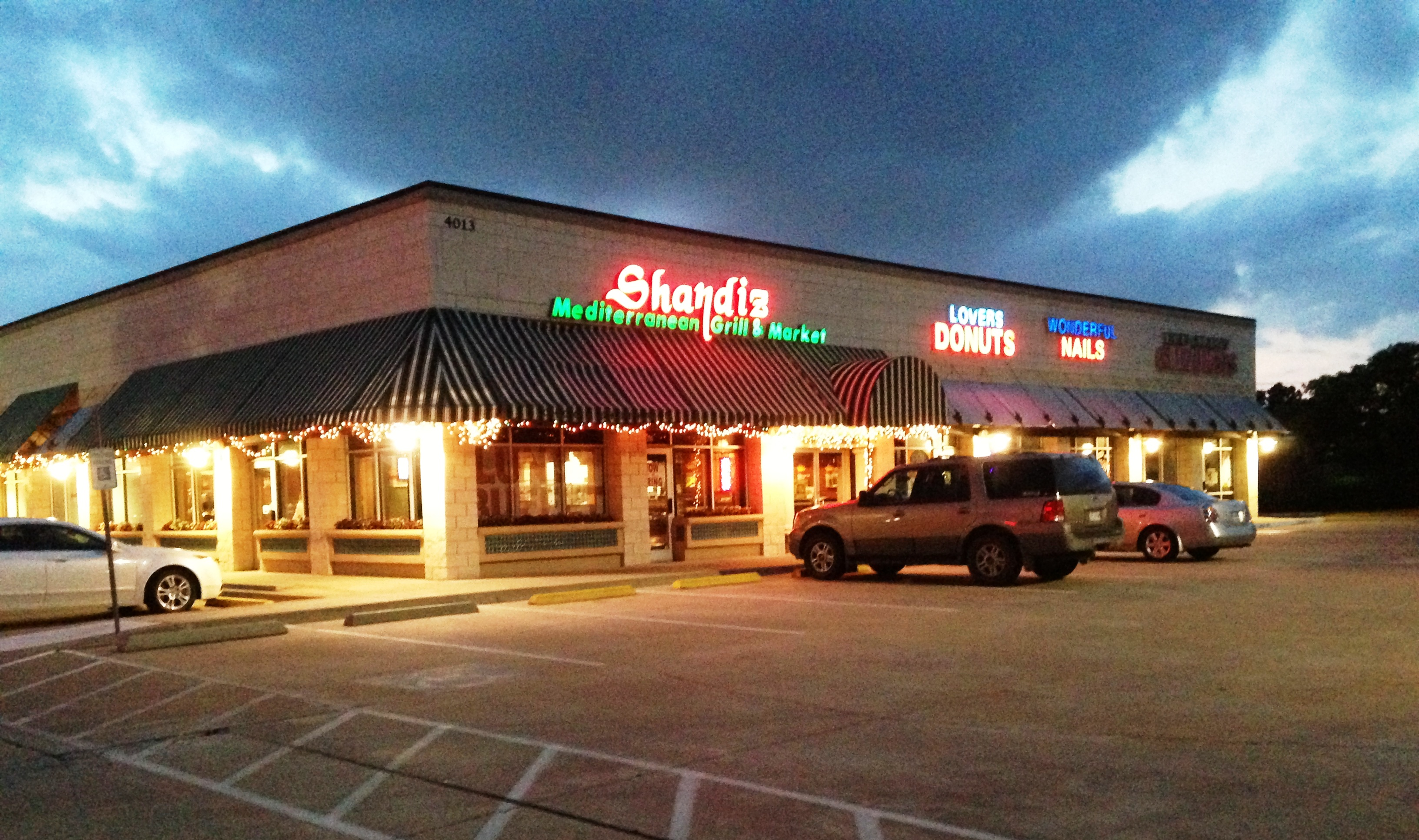 Shandiz is the name of a popular restaurant in Mashad, Iran, serving traditional Persian dishes. These restaurants are so highly regarded in fact, that there are many restaurants worldwide that try to emulate their style, feel, and taste. This one is located in Plano, Texas.